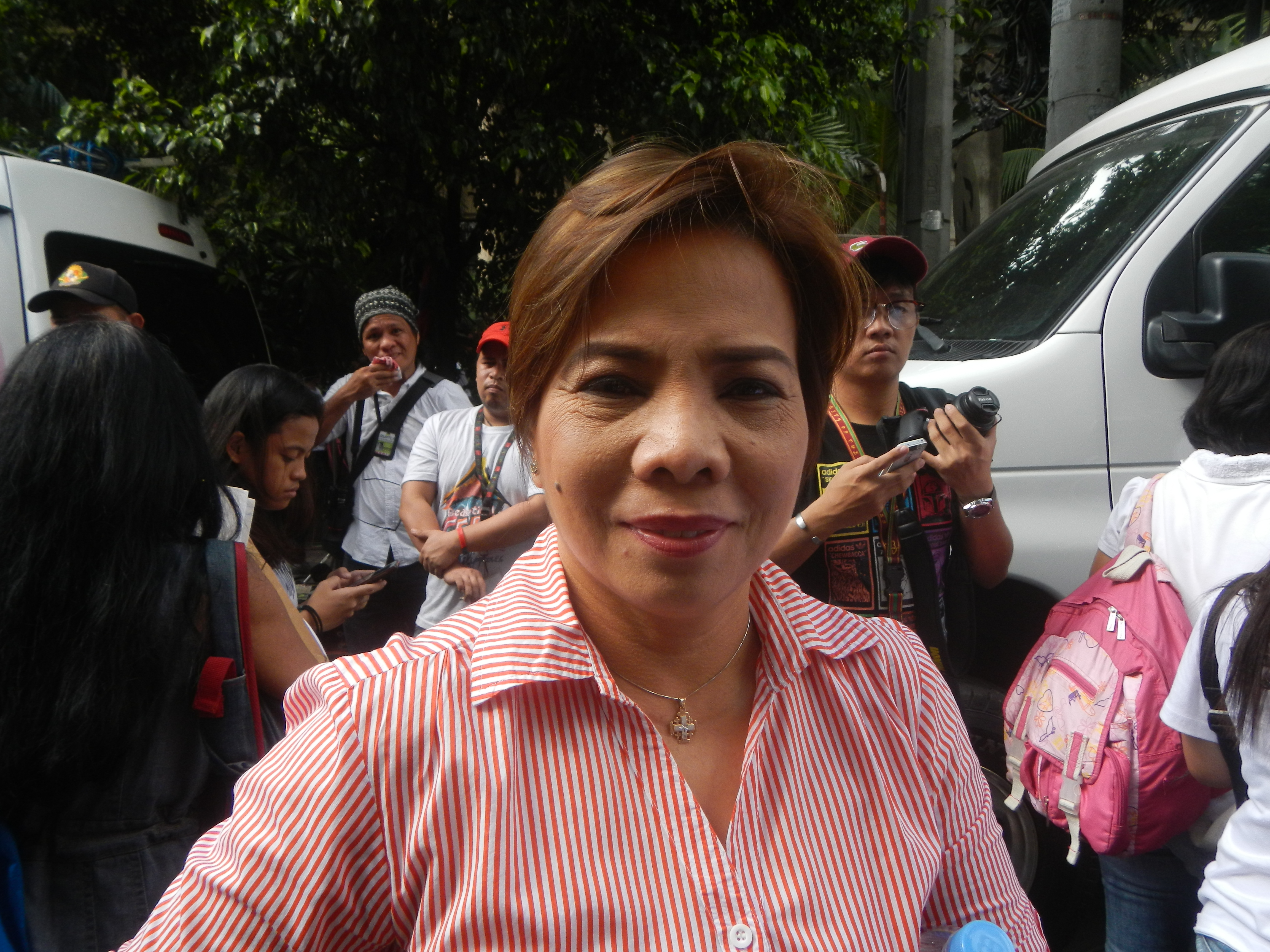 Ermita, Manila, List of barangays of Metro Manila Legislative districts of Manila 5th District, Barangays 669, Zone 72, 675, 676, Zone 73, 686, 687, 688, 694, 695, Zone 75, District V, Ermita, Manila, City of Manila United Nations Avenue along Taft Avenue United Nations LRT Station corner Padre Faura Street Padre Faura 14°34'42"N 120°58'59"E Vigil, prayer and rallies - Media coverages in the Ferdinand Edralin Marcos Burial Cases November 8, 2016 Judgment (Padre Faura Street, Supreme Court of the Philippines) Supreme Court of the Philippines SC favors dictator Marcos’ burial t Libingan ng mga Bayani Burial of Ferdinand Marcos Heroes' Cemetery Marcos Burial Cases Saturnino C. Ocampo, et al. Vs. Rear Admiral Ernesto C. Enriquez, et al. Rep. Edcel C. Lagman, et al. Vs. Executive Secretary Salvador C. Medialdea G.R. No. 225973 November 8, 2016 Neri Colmenares Neri Javier Colmenares, Susan Enriquez Kay Susan Tayo James Hookway (Note: Judge Florentino Floro, the owner, to repeat, Donor Florentino Floro of all these photos hereby donate gratuitously, freely and unconditionally all these photos to and for Wikimedia Commons, exclusively, for public use of the public domain, and again without any condition whatsoever).